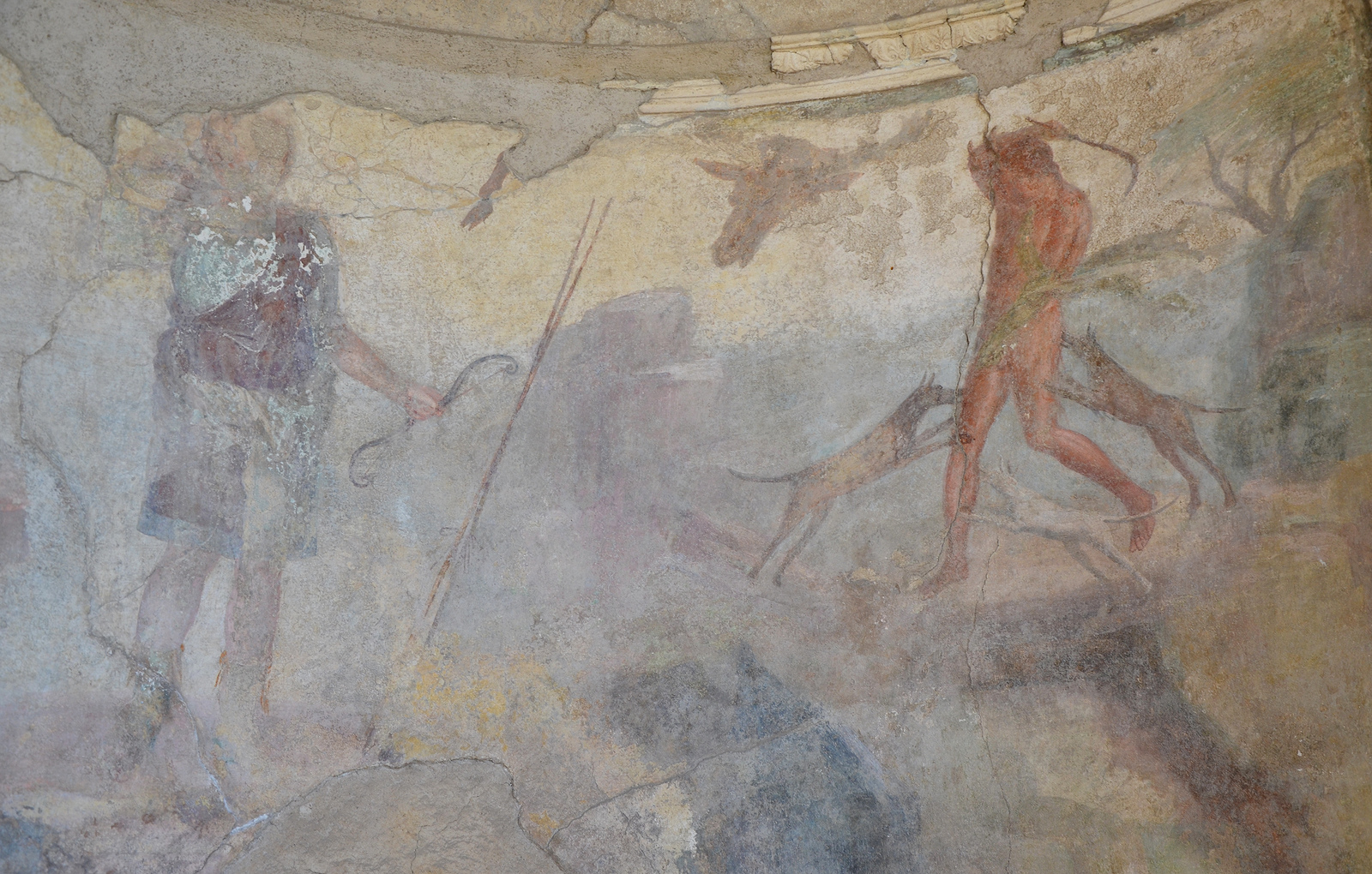 In situ wall fresco depicting the myth of Actaeon, Pompeii